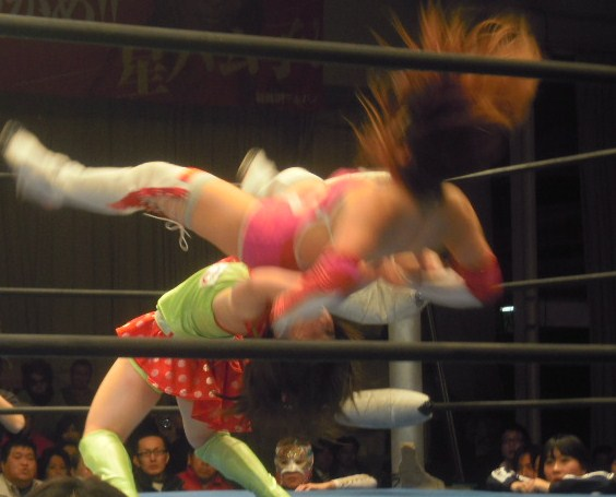 Tiger suplex by Tsukushi. Dec 25 2011 Ice Ribbon Korakuen Hall.